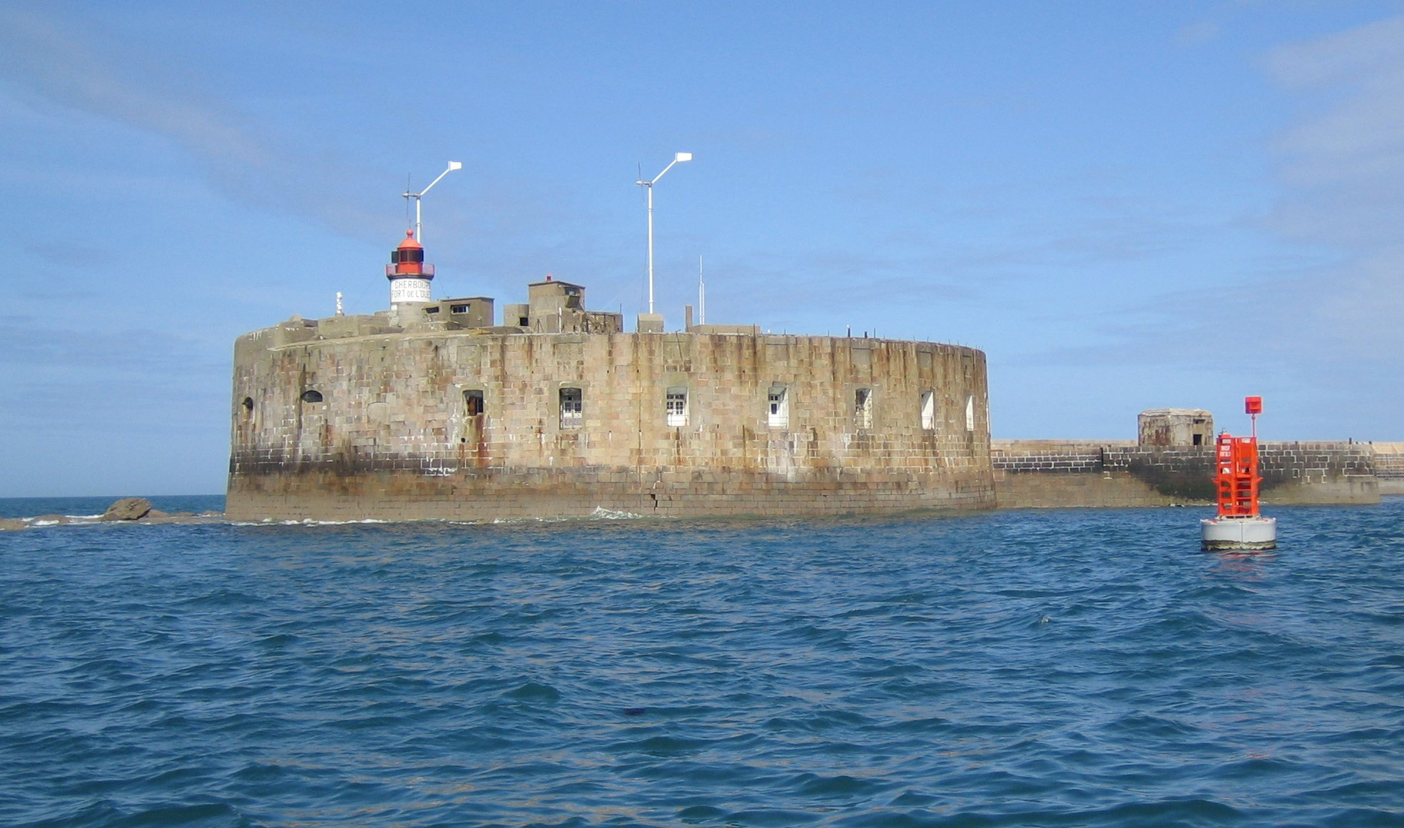 Rade de Cherbourg (Cherbourg roadstead, France) : Fort de l'ouest (western end of the long sea wall